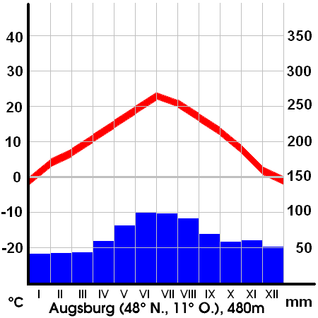 climate diagram of Augsburg, Germany